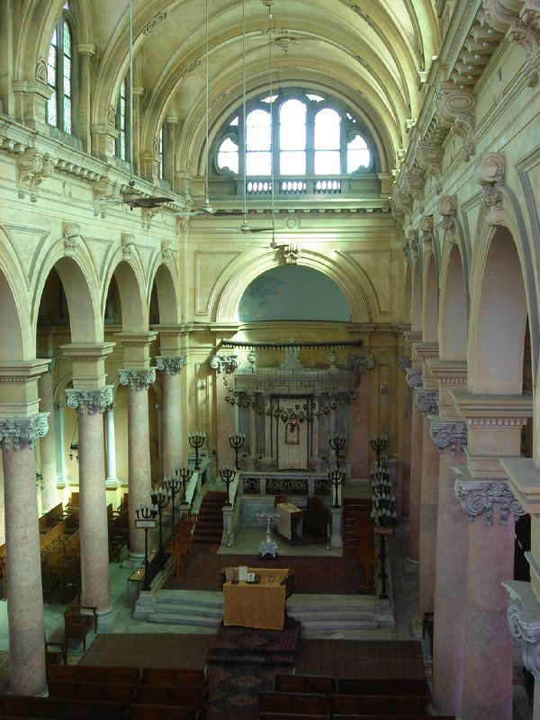 Jewish community of Egypt. Egypt's Jewish community which numbered 70,000-90,000 at its height (in 1947) now only has a few tens of Jews. The community looks after the cemeteries and the remaining synagogues, but needs moral and financial support.